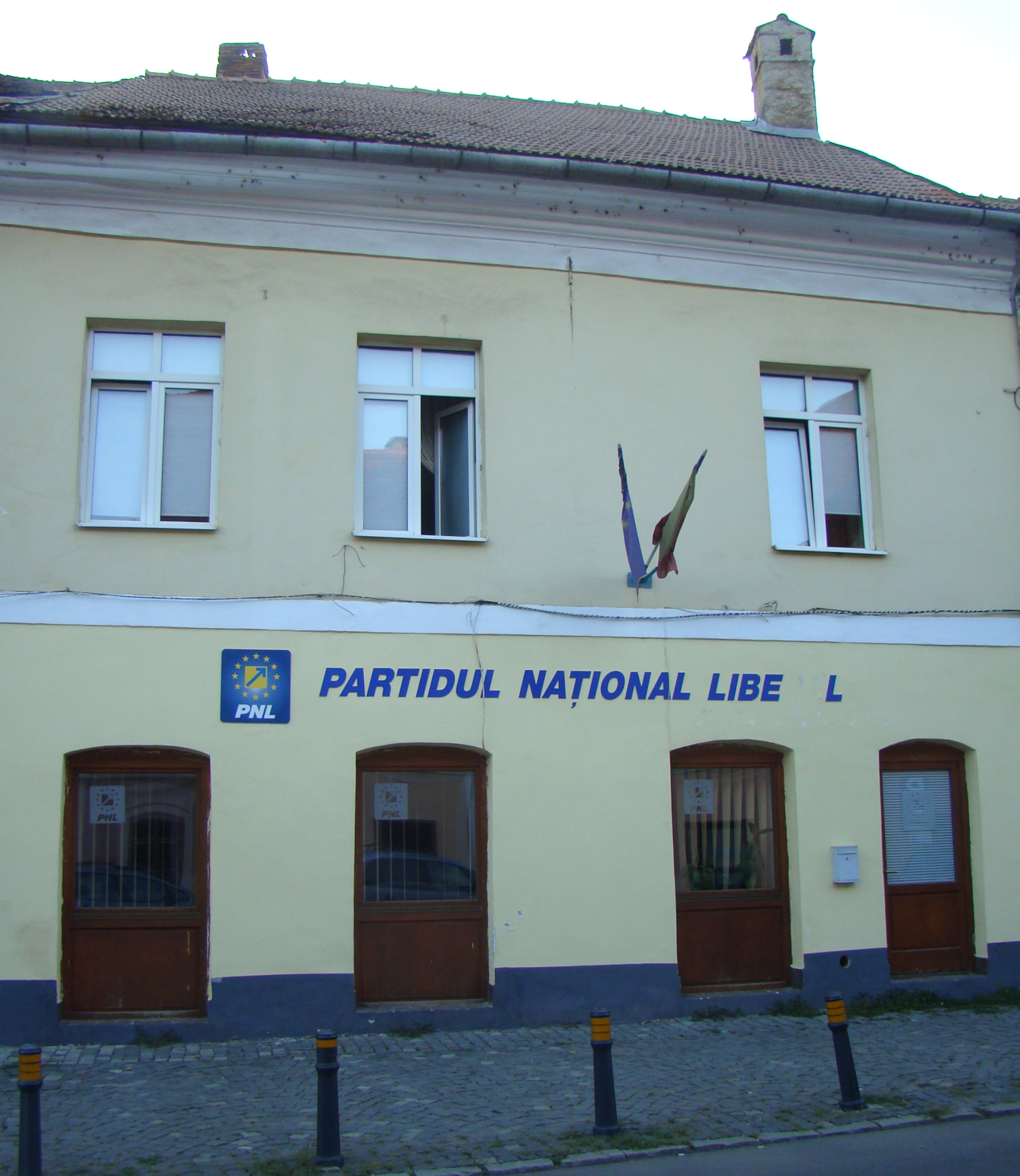 House, historic monument, in Bistrița, Nicolae Titulescu street 12